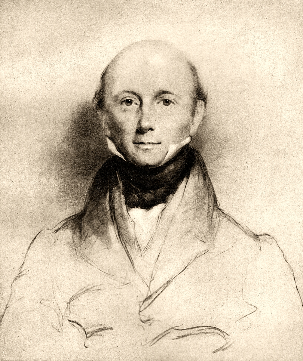 Picture of George Bellas Greenough, (18 January 1778 – 2 April 1855) geologist and mineralogist